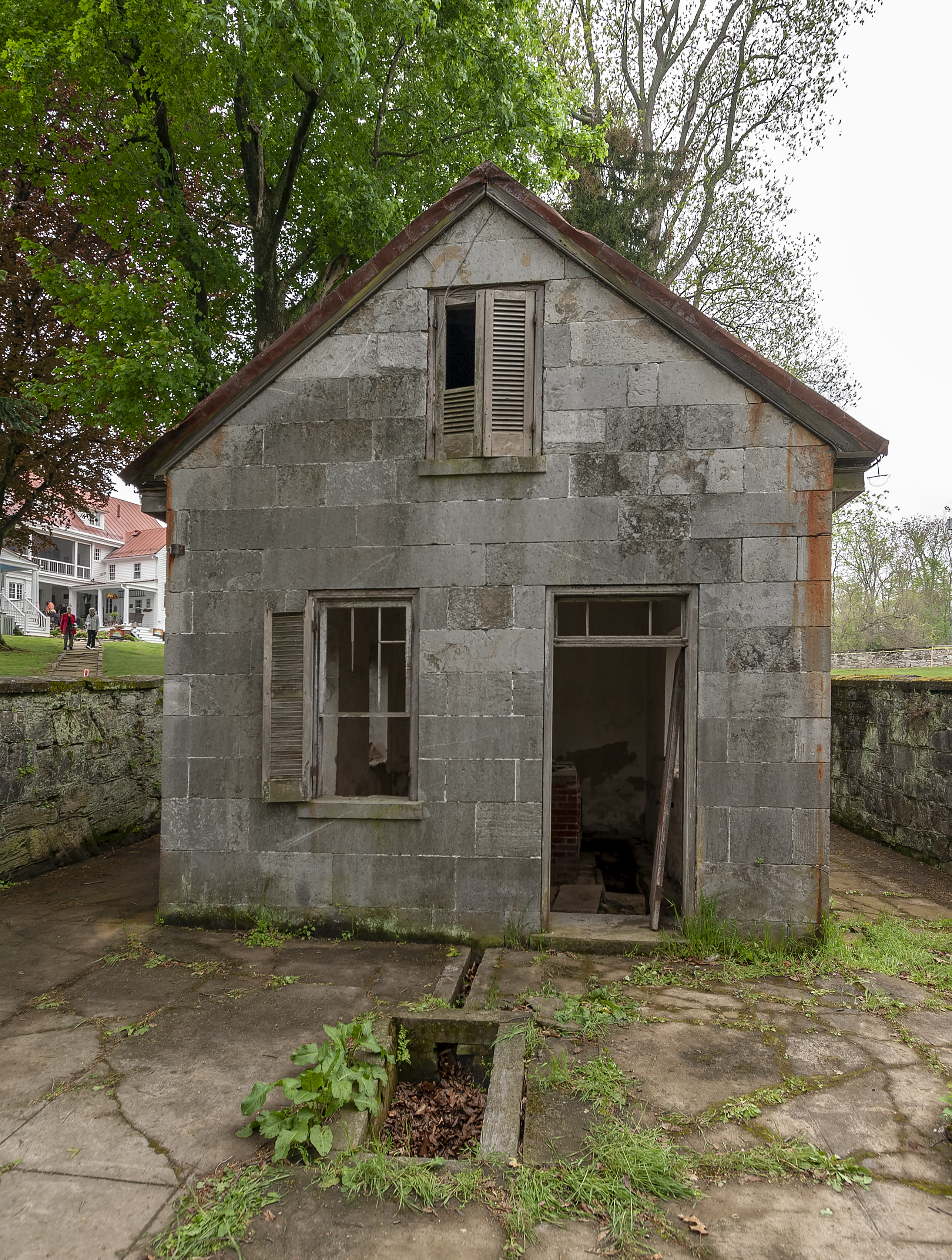 The lower end of the springhouse at Wild Goose Farm, near Shepherdstown, West Virginia, USA